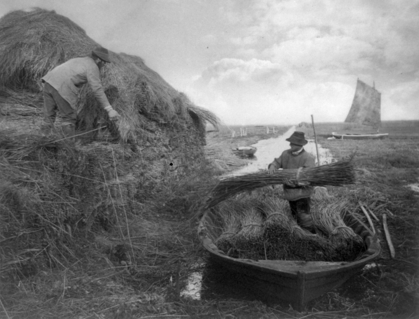 Two men loading reeds onto boat, England.